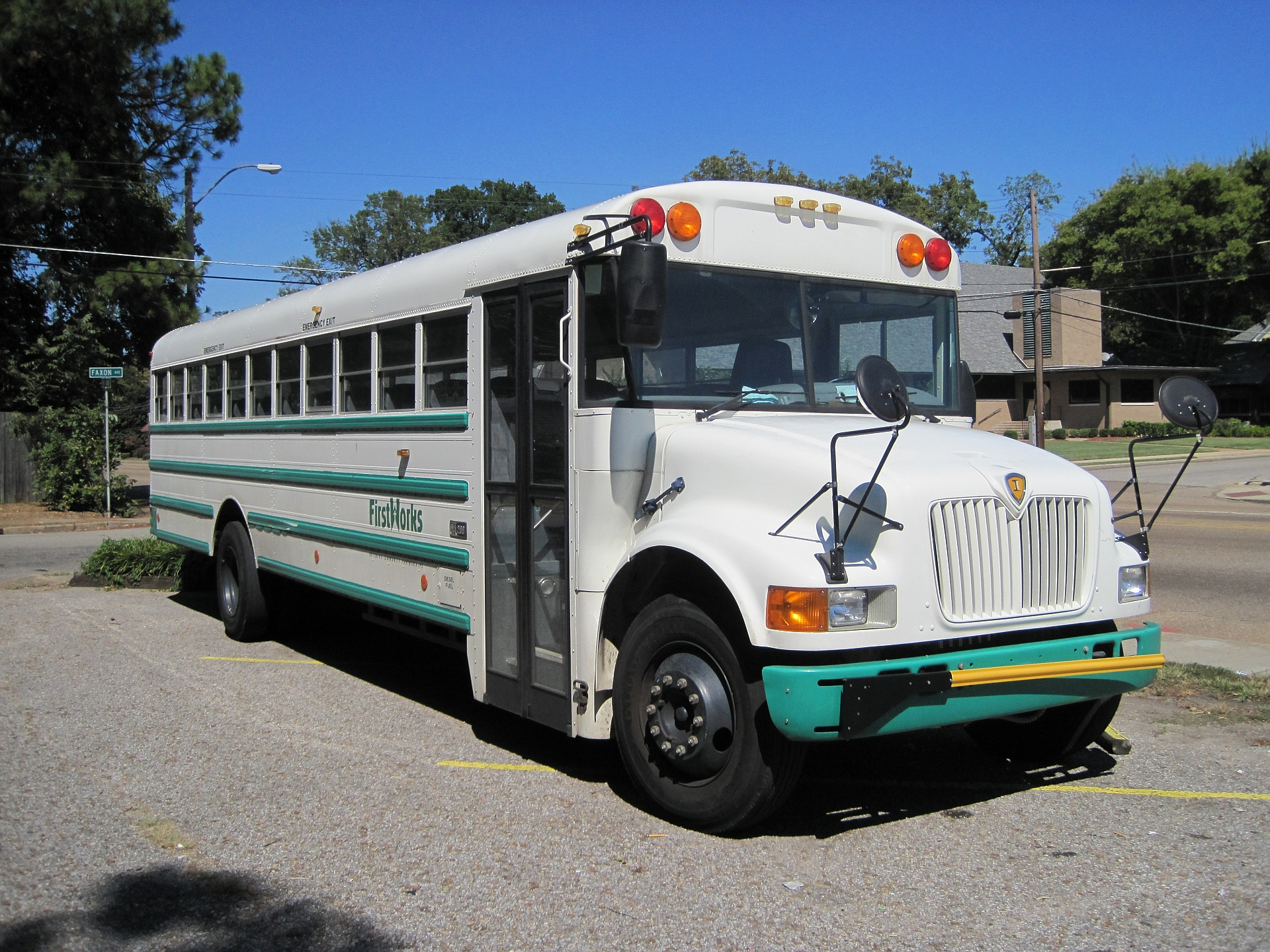 Highland Heights United Methodist Church bus.